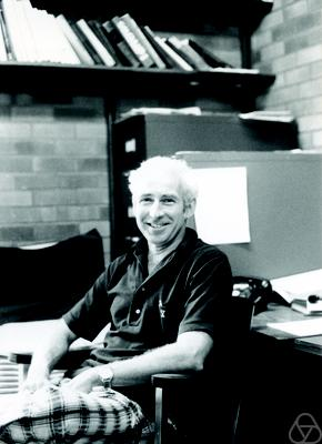 Picture of Robert McCallum Blumenthal